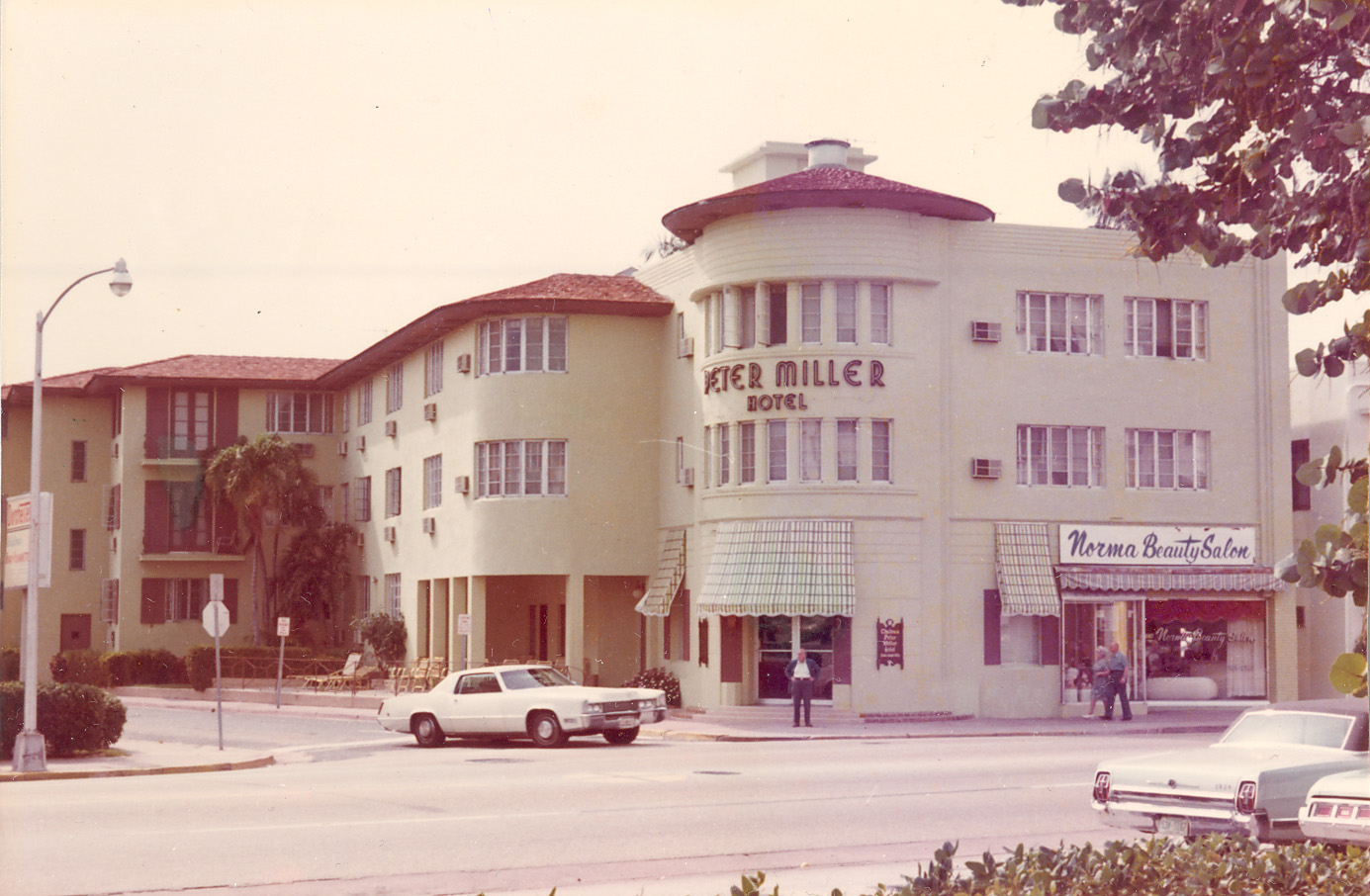 Peter Miller HotelPlace: 1900 Collins Avenie, Miami Beach, FL